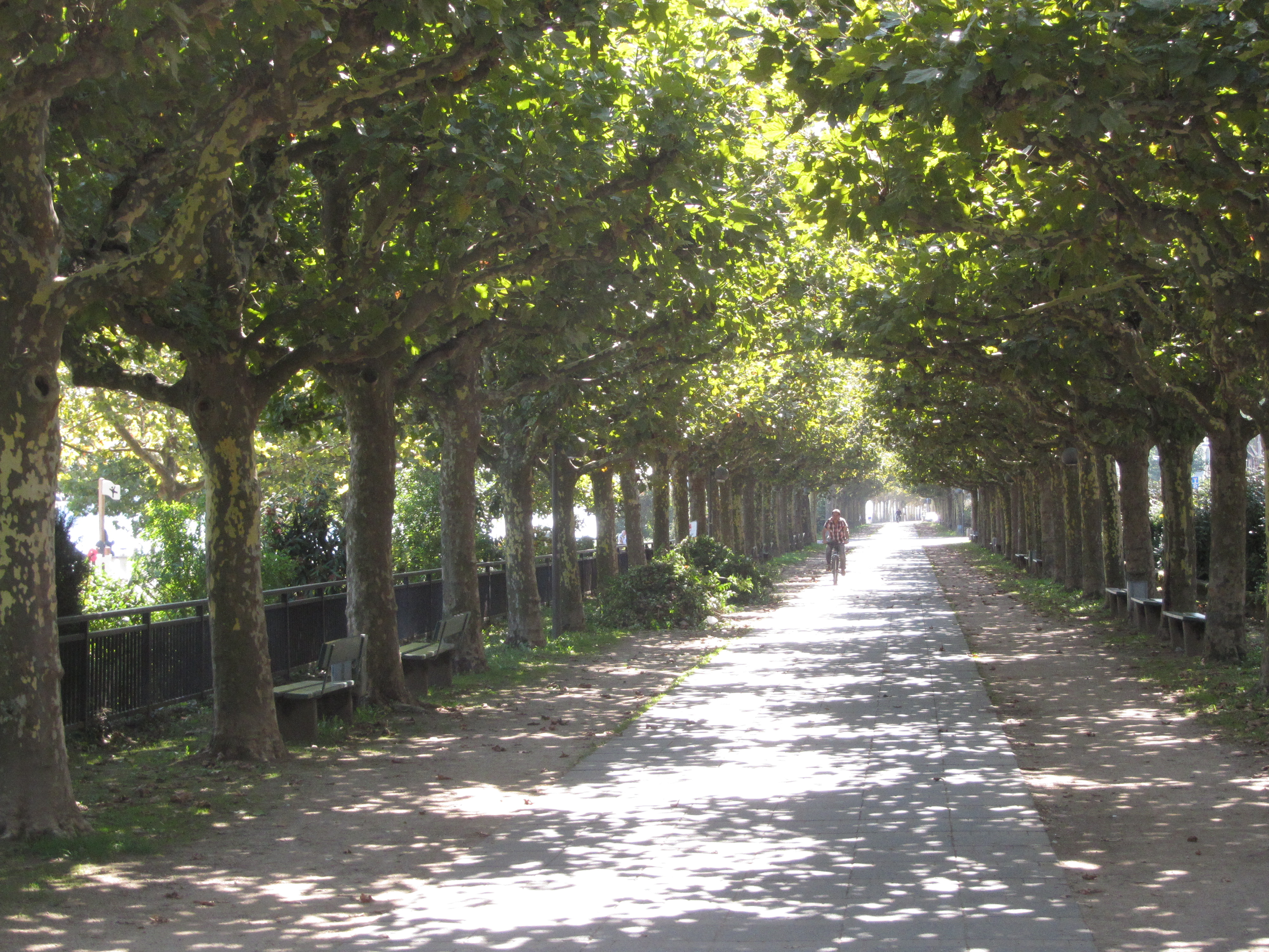 Rhine promenade at Mainz